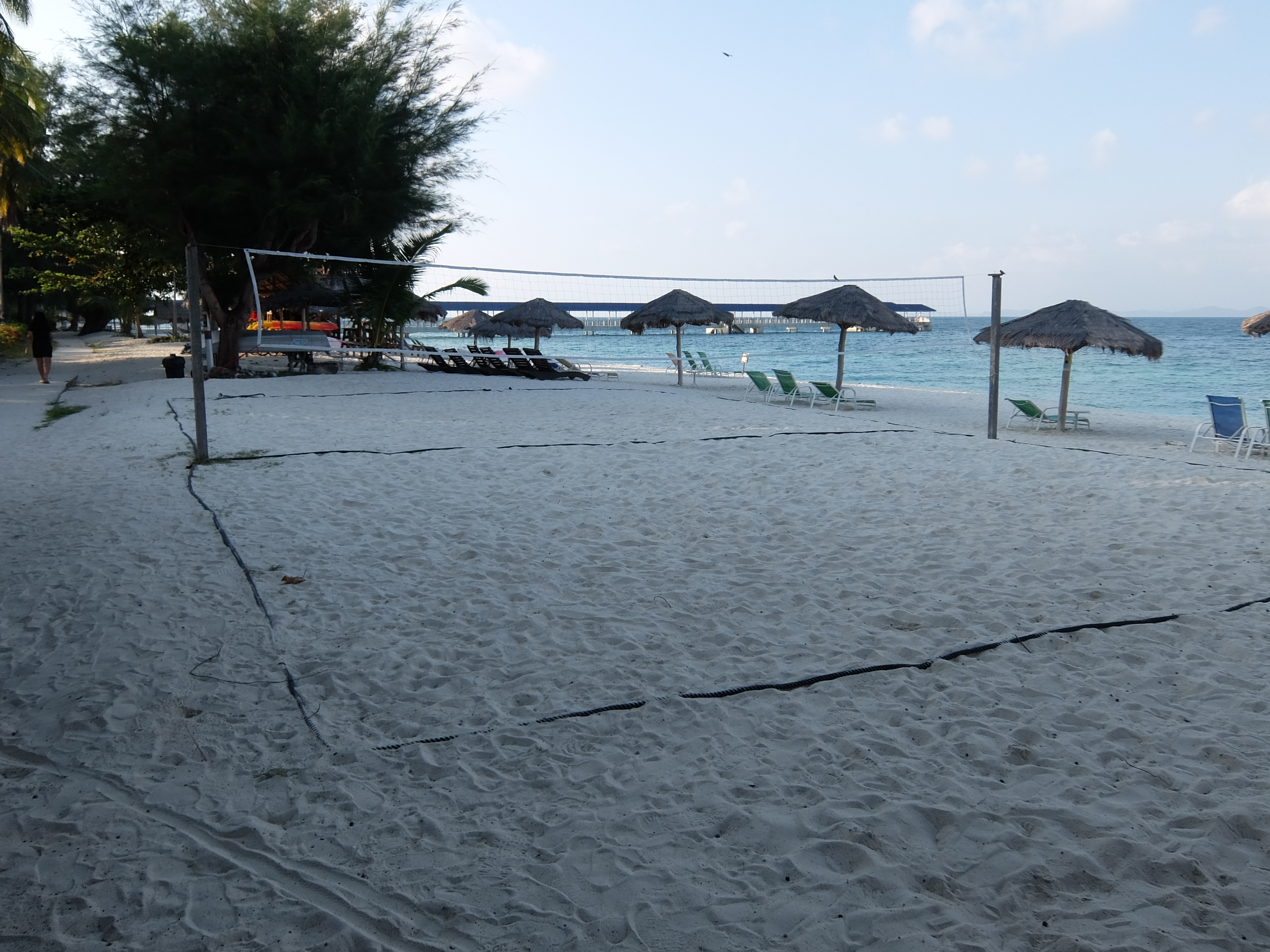 Aseania Beach Resort, Besar Island, Mersing, Johor, Malaysia